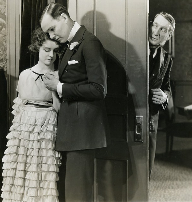 Left to right: Priscilla Bonner, Charles Ray, and Otto Hoffman in Homer Comes Home - publicity still (cropped)